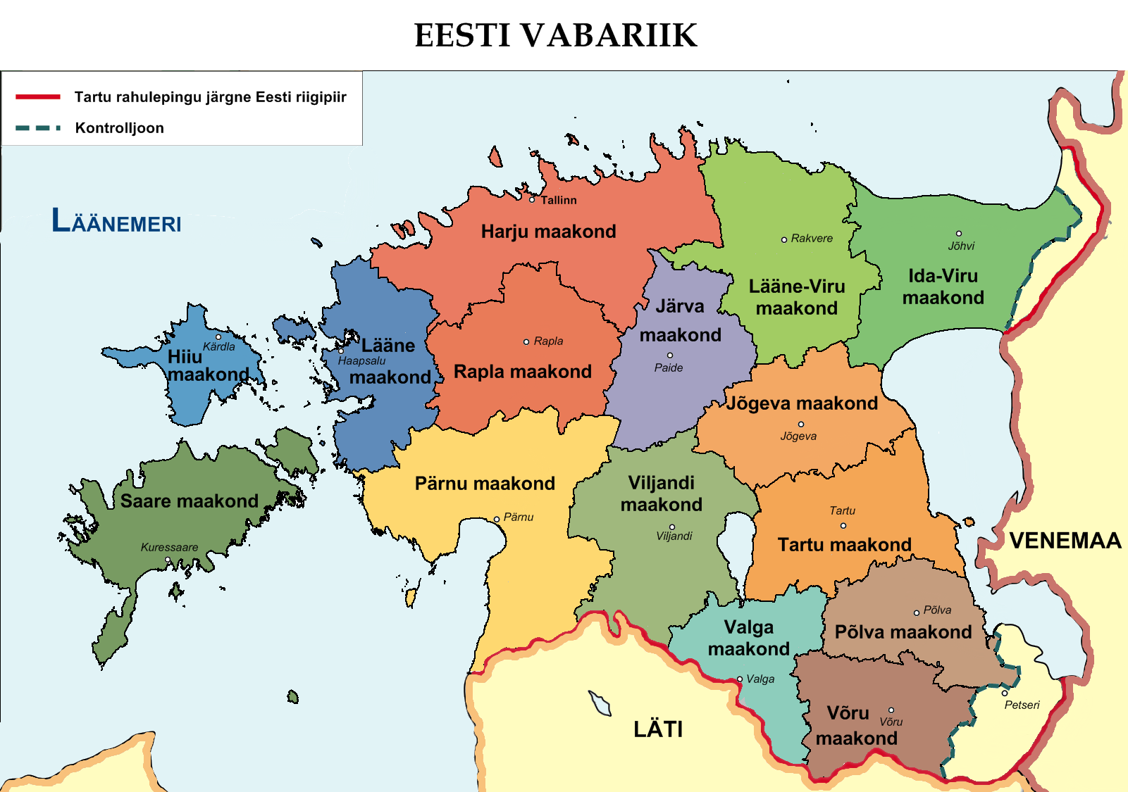 Map of Estonian counties. Thick red line shows the Estonian-Russian border according to Treaty of Tartu.